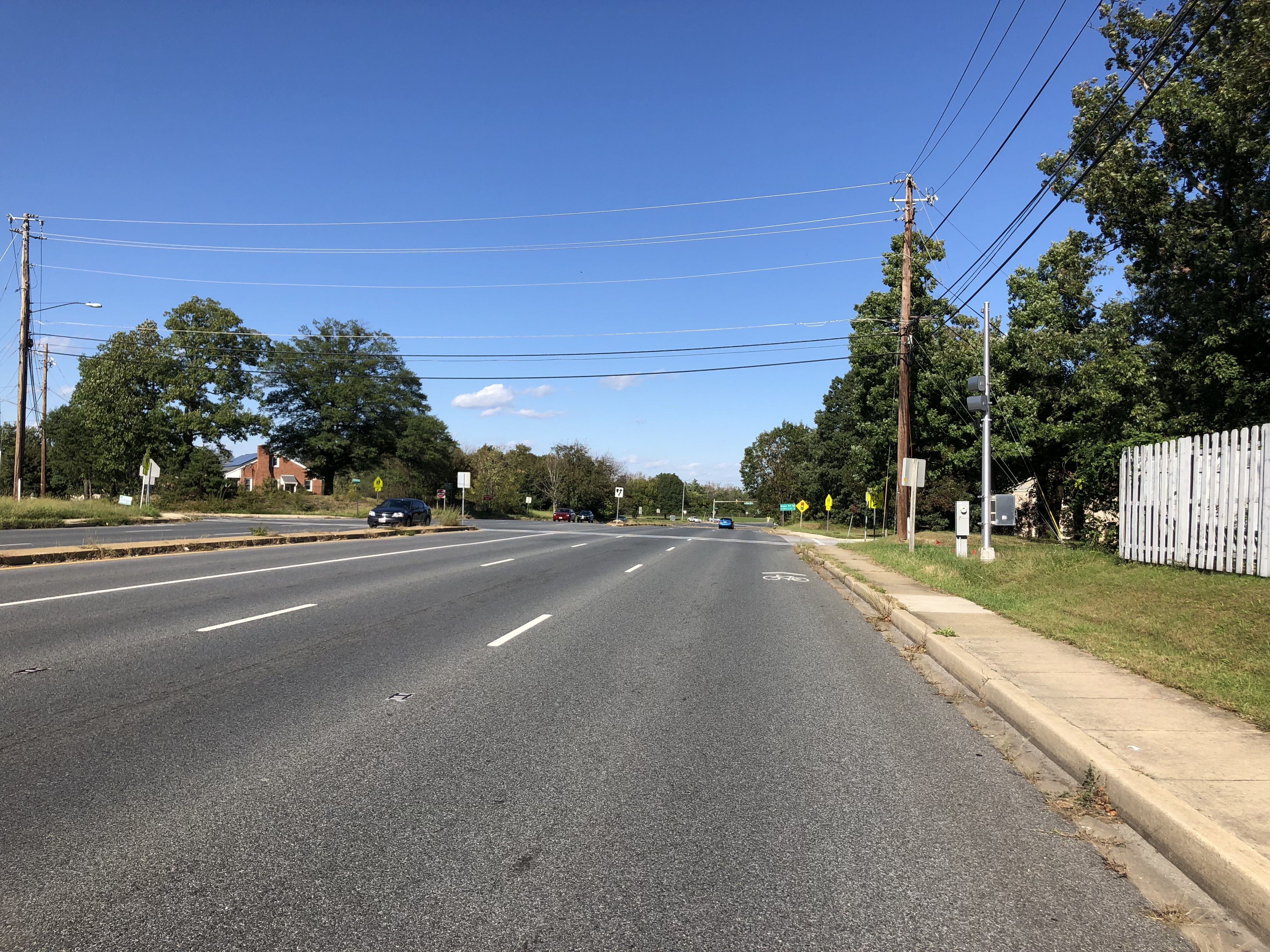 View north along Maryland State Route 458 (Silver Hill Road) just south of Atwood Street and Scott Key Drive in District Heights, Prince George's County, Maryland